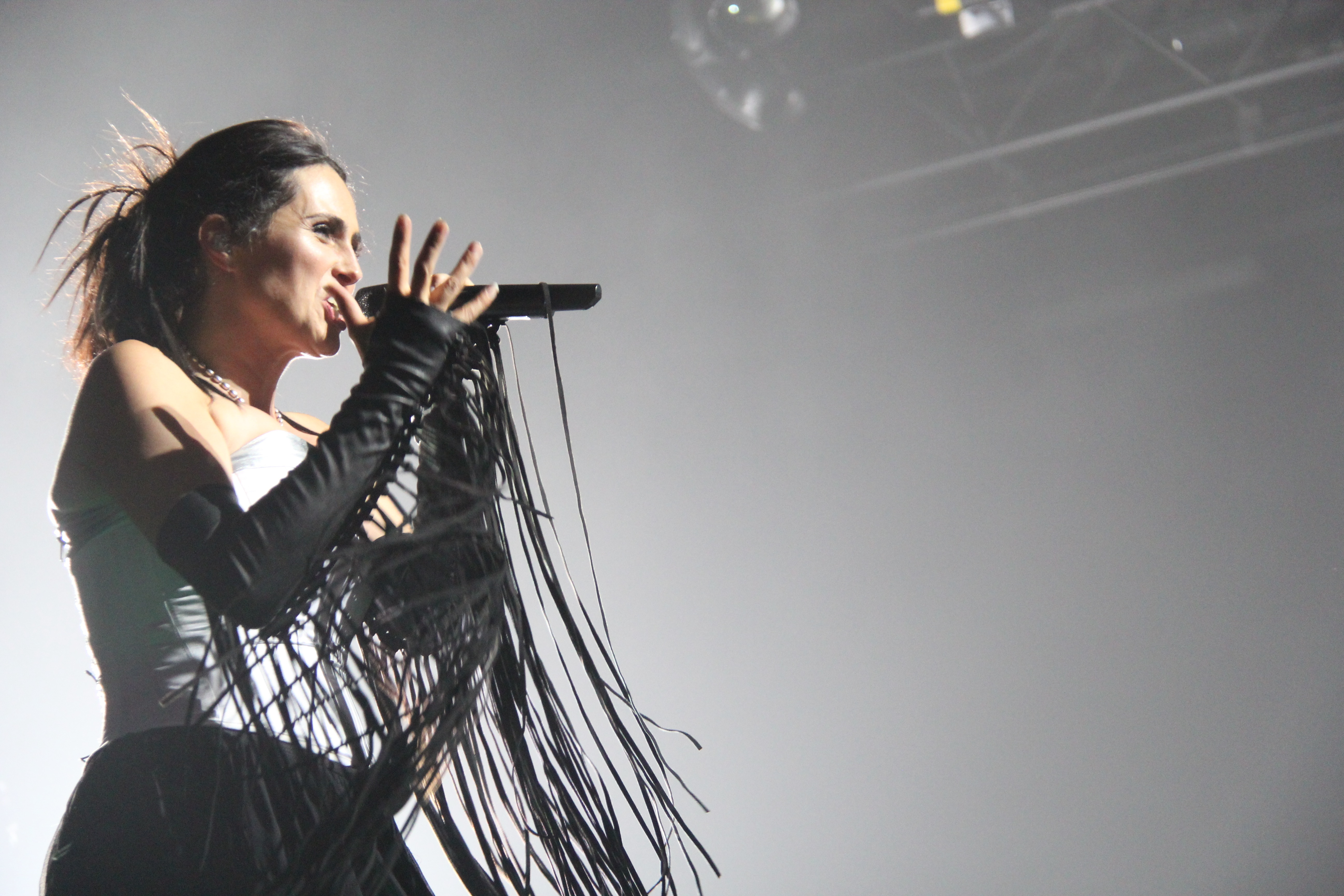 Within Temptation's lead vocalist Sharon den Adel during a concert at the Club Nokia, Los Angeles, during their Hydra World Tour.